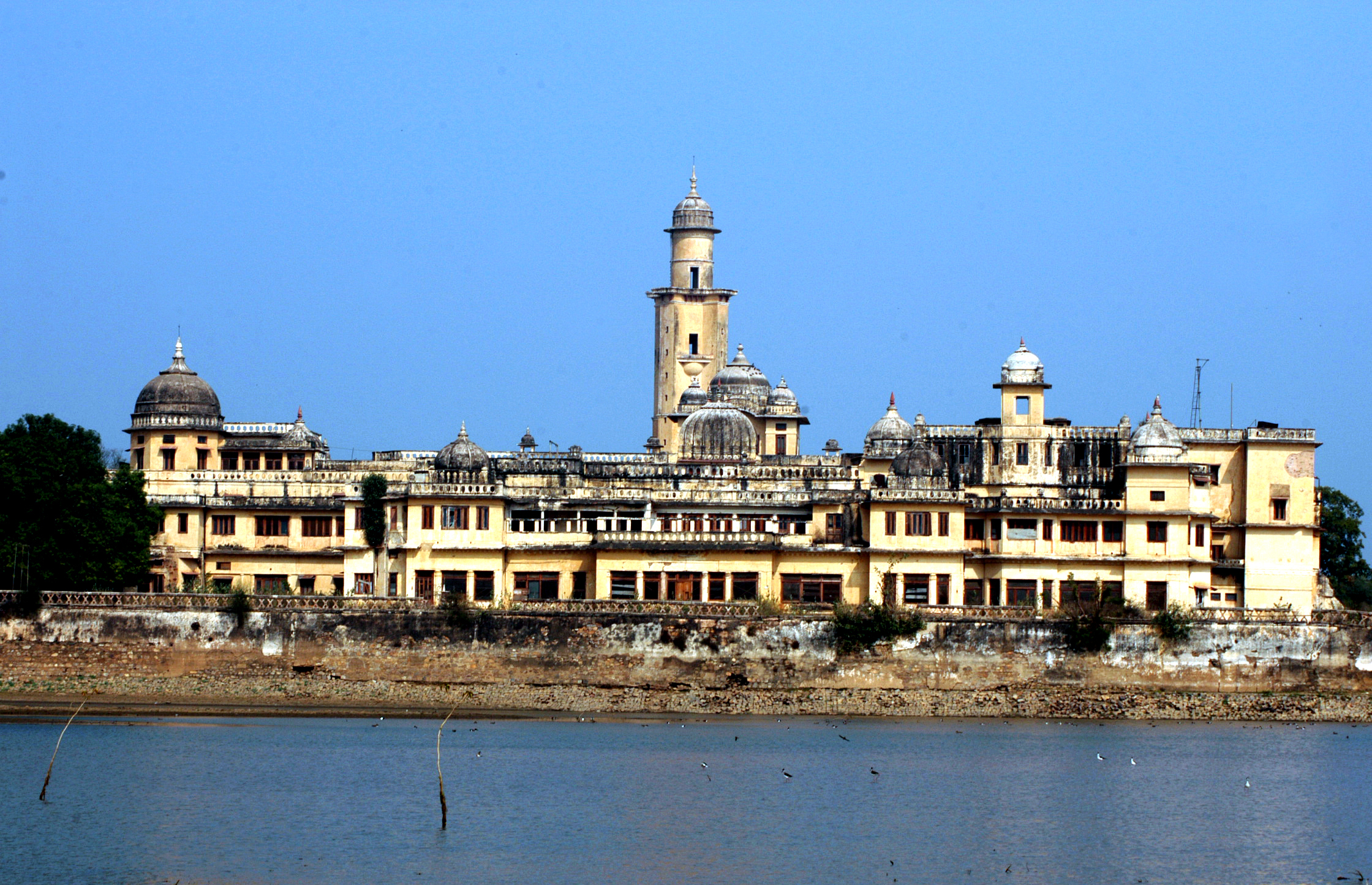 Vijay Mandir Palace wass the royal residence of Maharaja Jai Singh built in 1918.